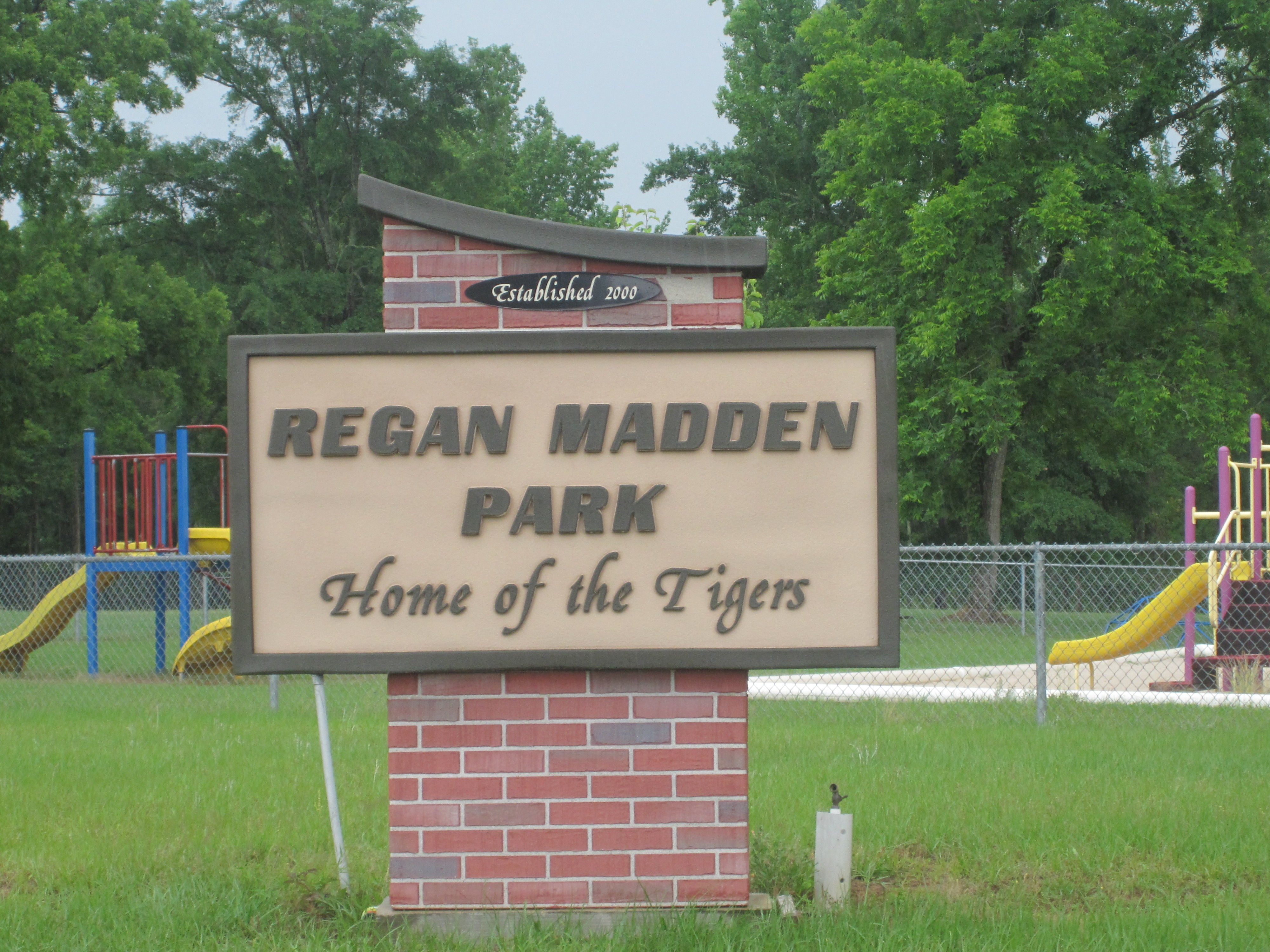 I took photo with Canon camera.